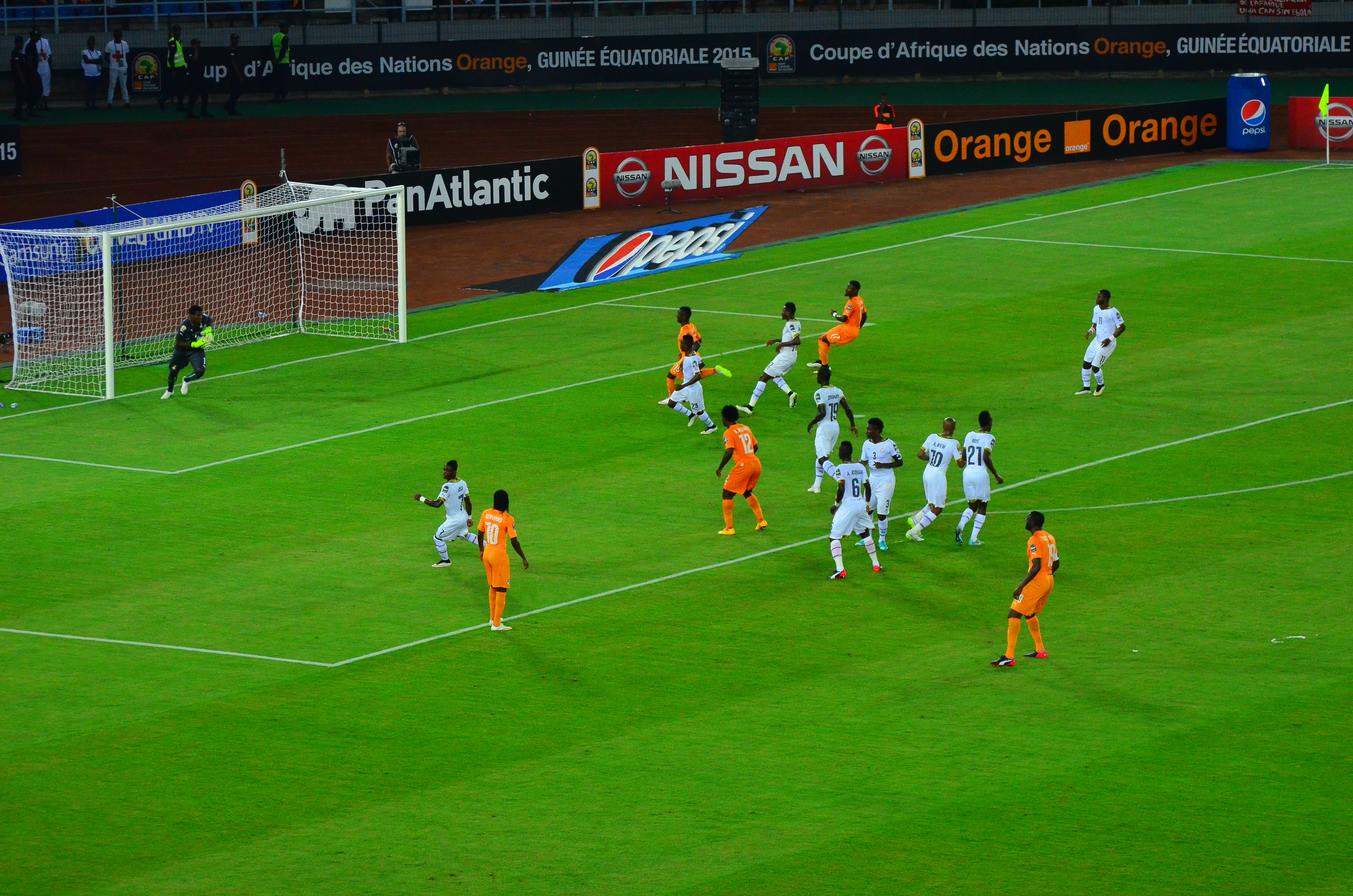 This is a picture of a soccer game (name of it is on file name).